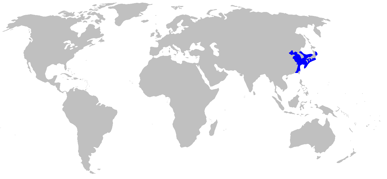 Distribution map for Scyliorhinus torazame